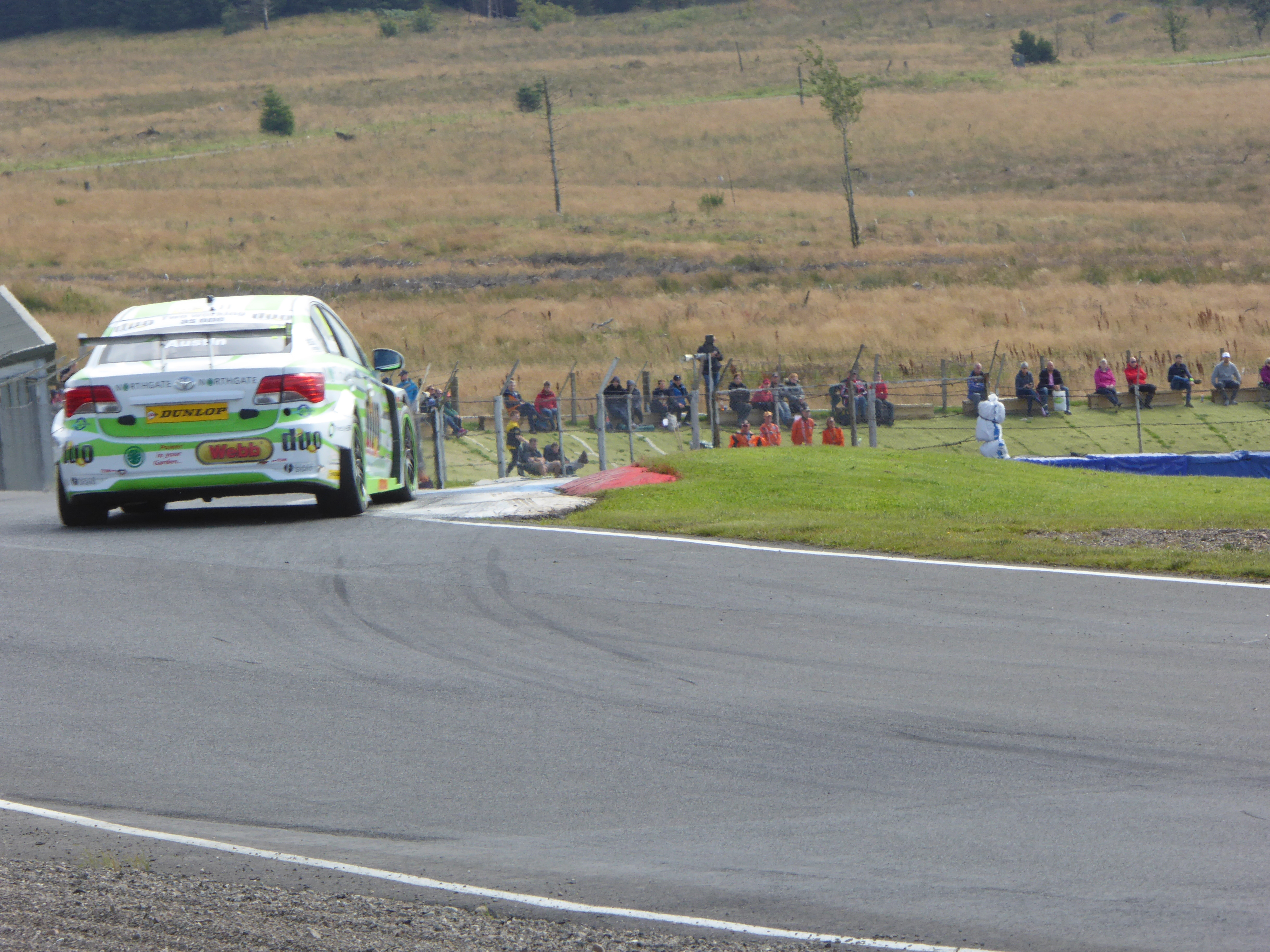 Rob Austin (Handy Motorsport), at the Knockhill round of the 2017 British Touring Car Championship.